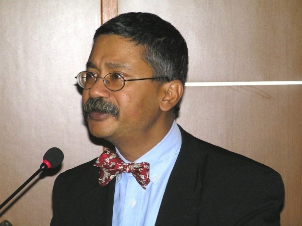 Professor Tipu Aziz at the "Public Forum on Brain Surgery in Parkinson's Disease " at the Auditorium Sekapur Sirih, Trauma and Emergency Centre in University Malaya Medical Centre on 6 November 2004.